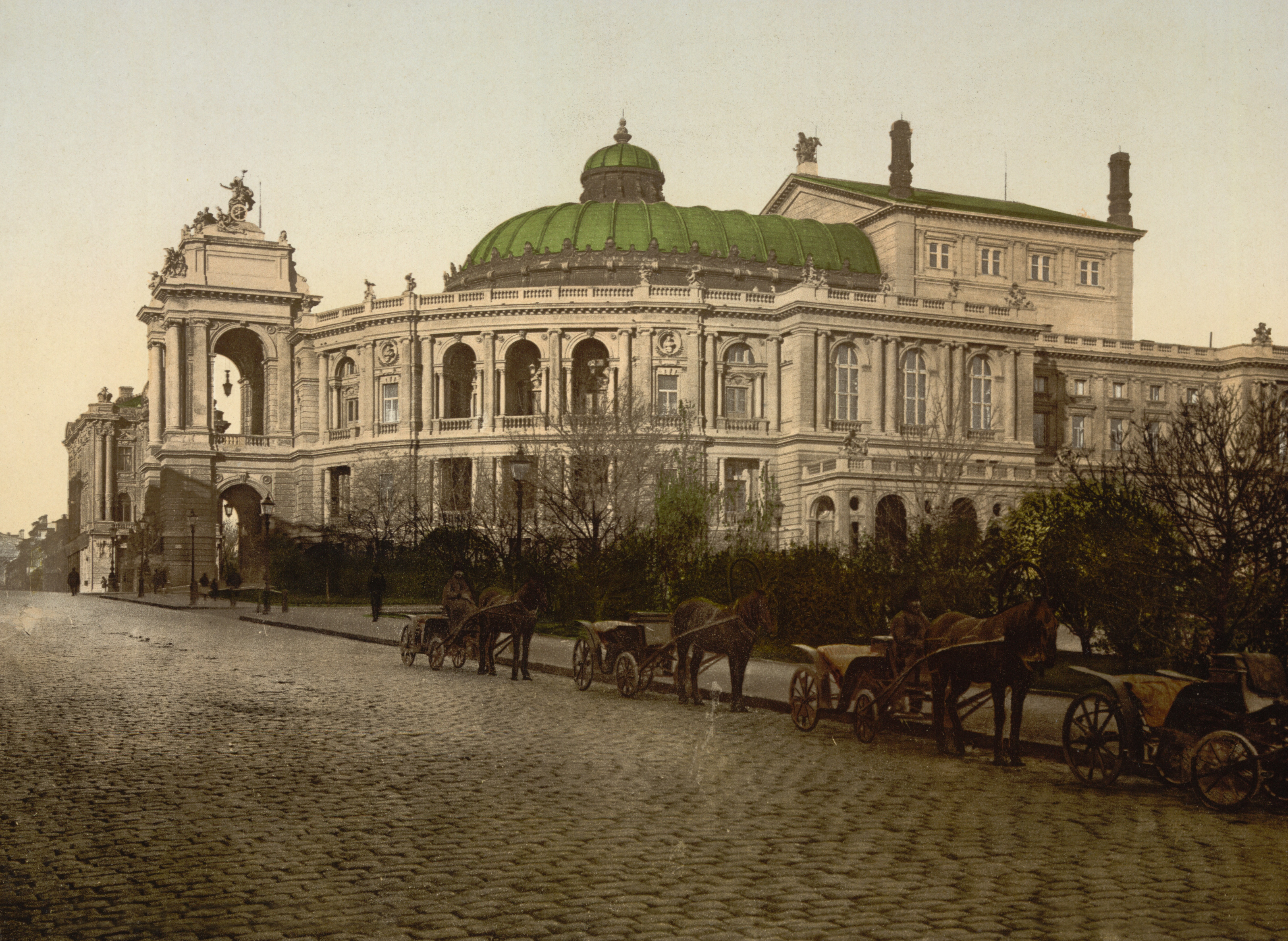 The Theatre, Odessa, Russia, (i.e., Ukraine) Print no. "8936"